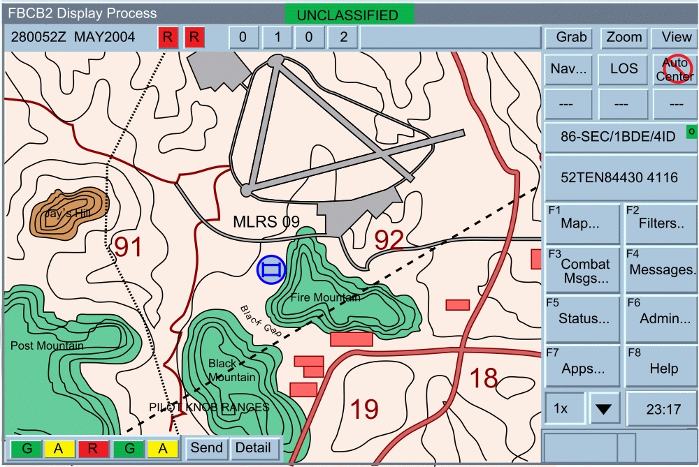 Operations Screen of the FORCE XXI BATTLE COMMAND BRIGADE-AND-BELOW (FBCB2)